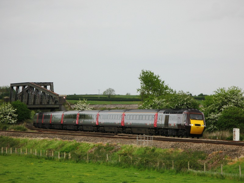 Cogload Junction, Somerset, England. 43207 leads a diverted CrossCountry service off the Castle Cary line due to engineering work on the direct Bristol to Taunton route.